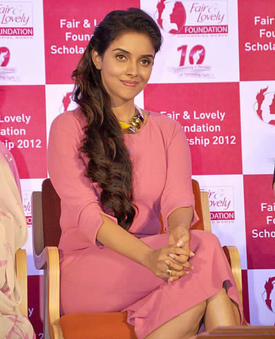 Asin at 'Fair & Lovely Foundation Scholarship 2013'